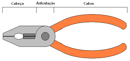 Component parts of a pair of pliers